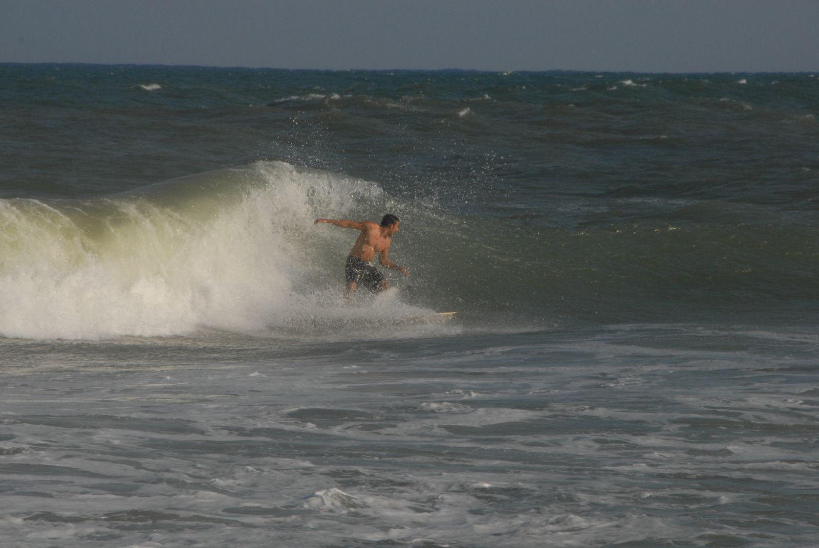 Waves along the Florida coastline from Hurricane Noel, which passed offshore.